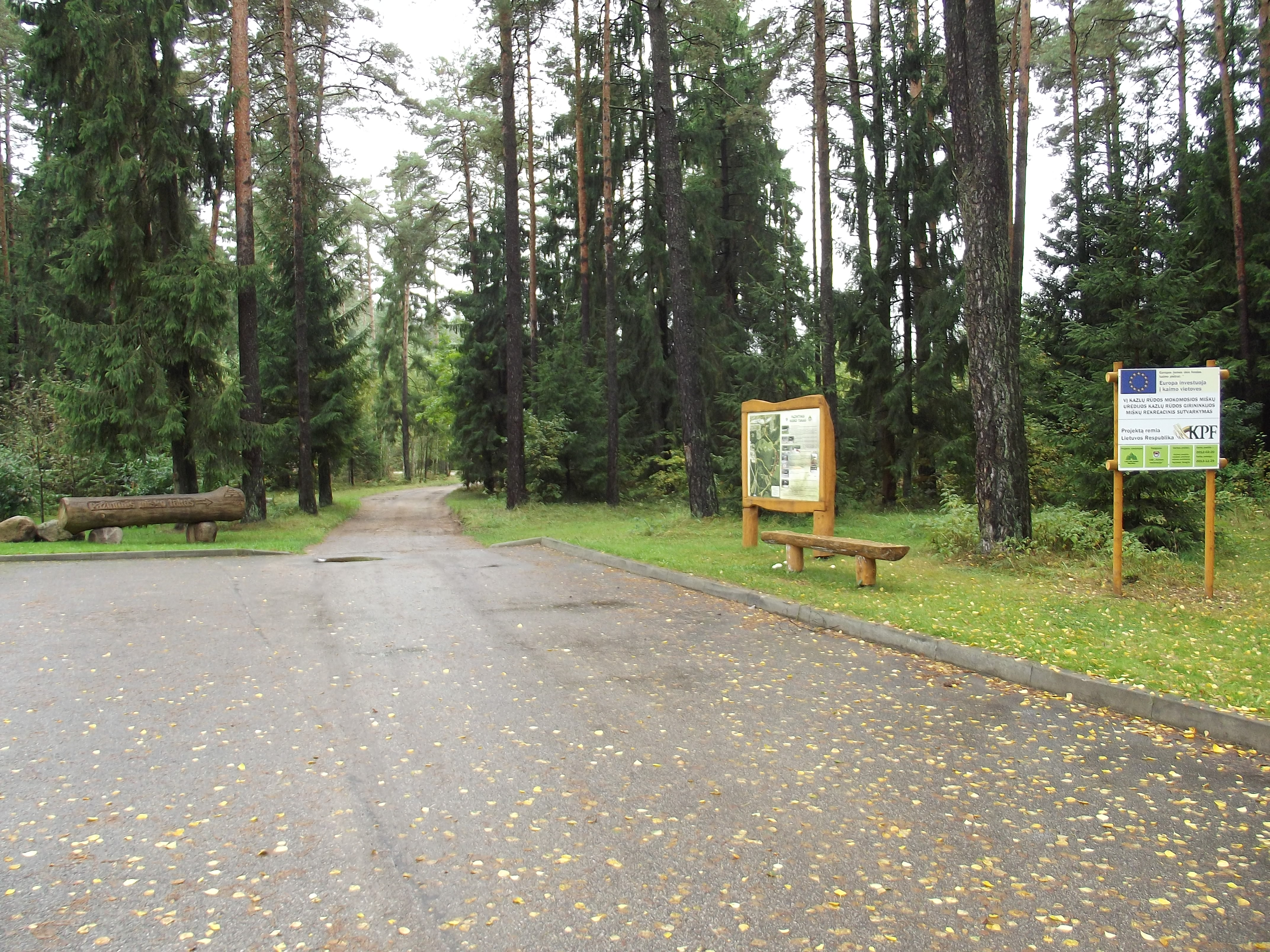 Kazlų Rūda Forest Enterprise, Lithuania